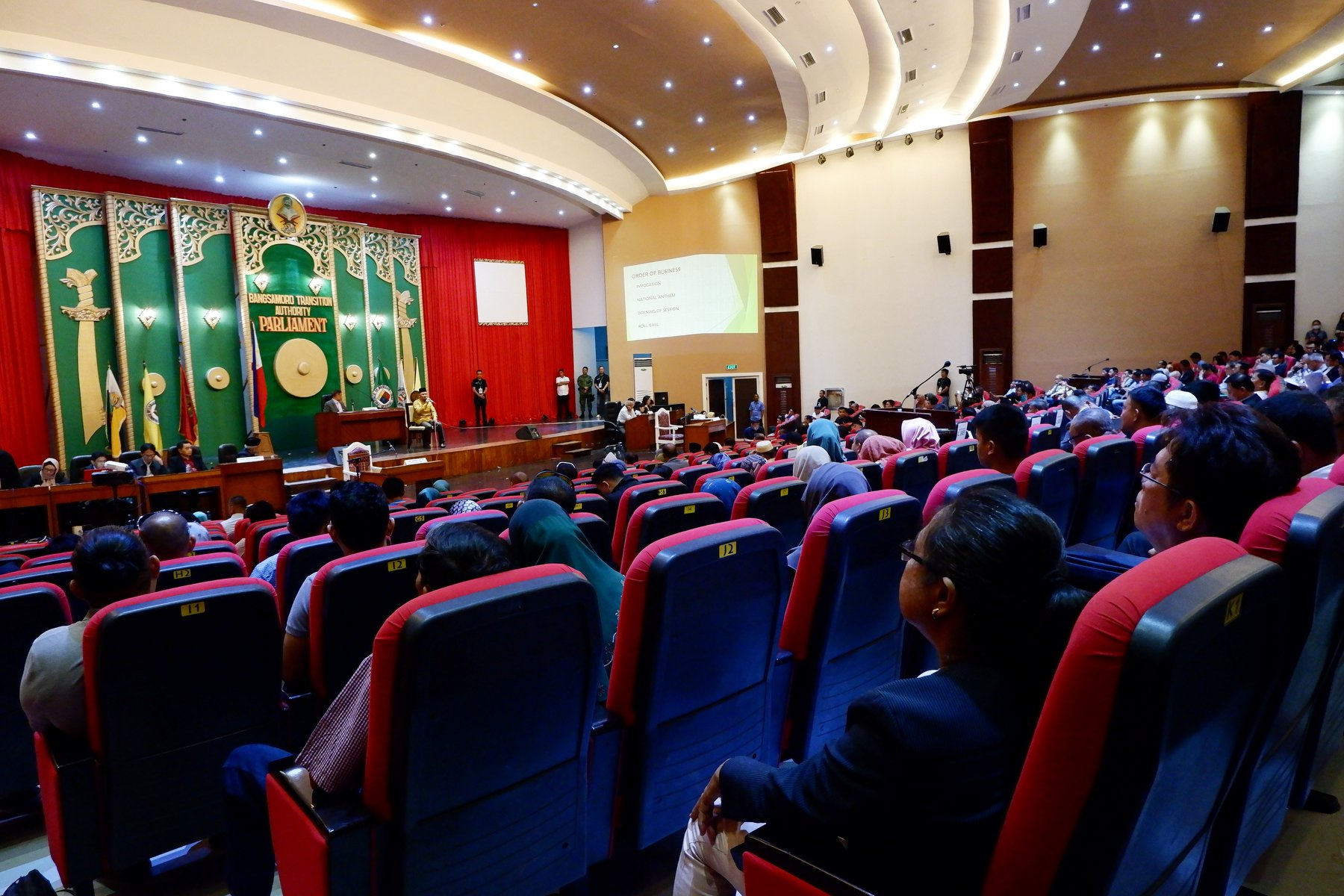 The Bangsamoro Transition Authority during its approval of the proposed transition plan as an interim Bangsamoro Parliament in a special session on June 17, 2019